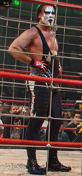 Sting competing at Lockdown (2007). St. Charles, MO, April 15en:2007.